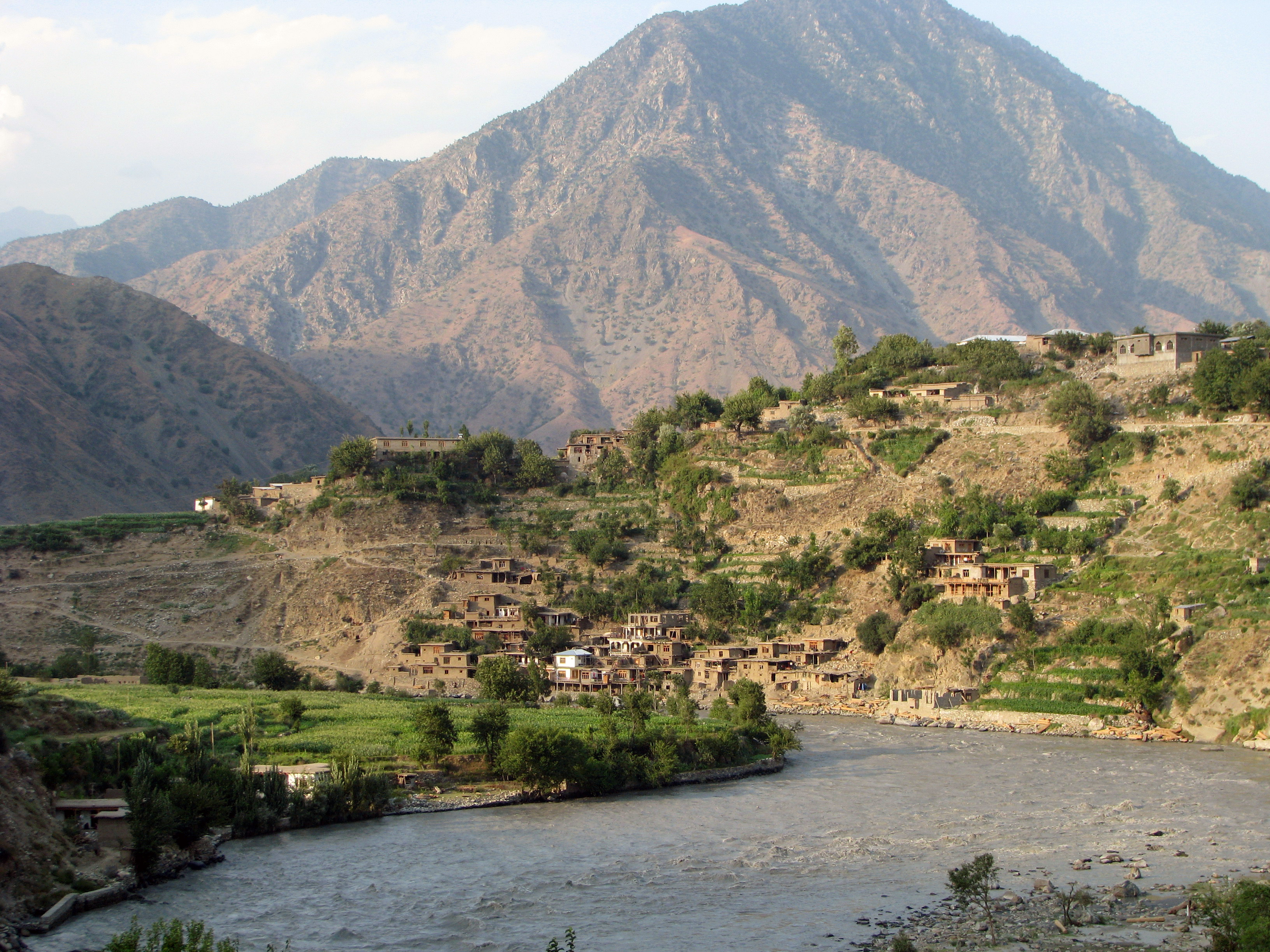 Looking north from the headquarters of the 7th Kandak of the Afghan Border Police Zone 1, located in Bari Kwot, Kunar province, Afghanistan, Aug. 25, 2012. The headquarters, situated along the Kunar River, has a commanding view of the river valley as it flows from Nuristan province into northern Kunar province. (Photo ID: 653027)